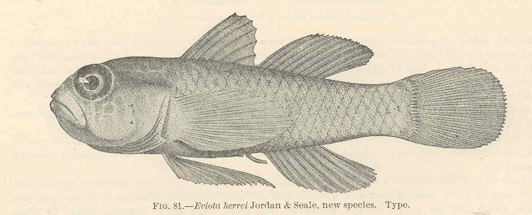 Eviota herrei Jordan & Seale, new species. Type Subject: Eviota Tag: Fish